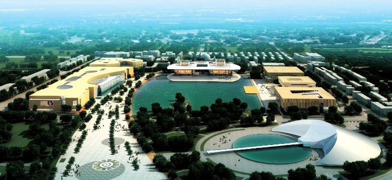 Planning and design of Tianjin Cultural Center，by Government of Tianjin City,P.R.China